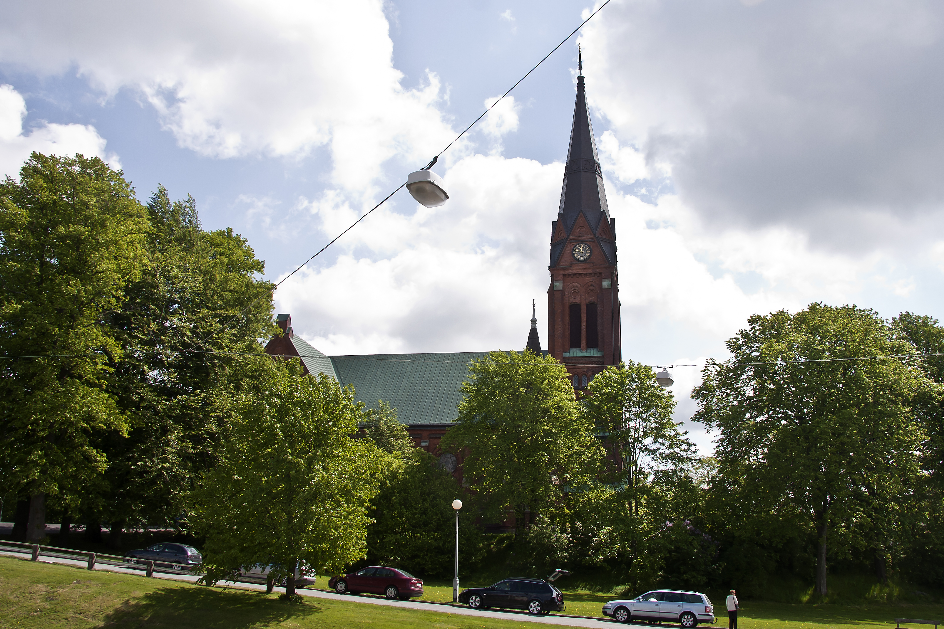 Örgryte nya kyrka (New Church of Örgryte) in Örgryte borough in Gothenburg, Sweden.